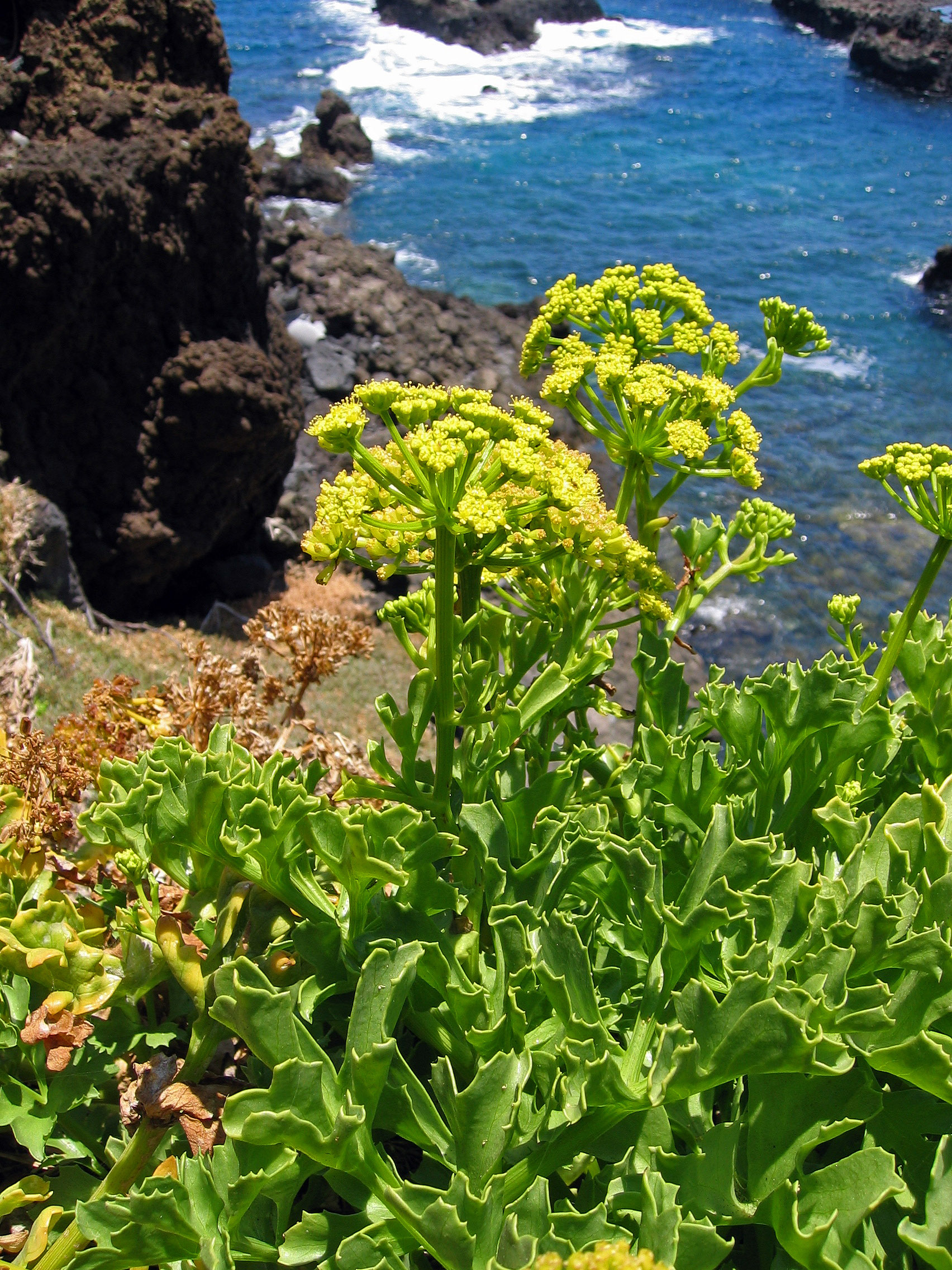 Astydamia latifolia, Los Cancajos, La Plama, Spain